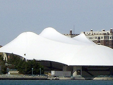 Chene Park Amphitheatre — at the Detroit International Riverfront. A covered a 6,000-seat performing arts amphitheater on the Detroit River promenade. self made